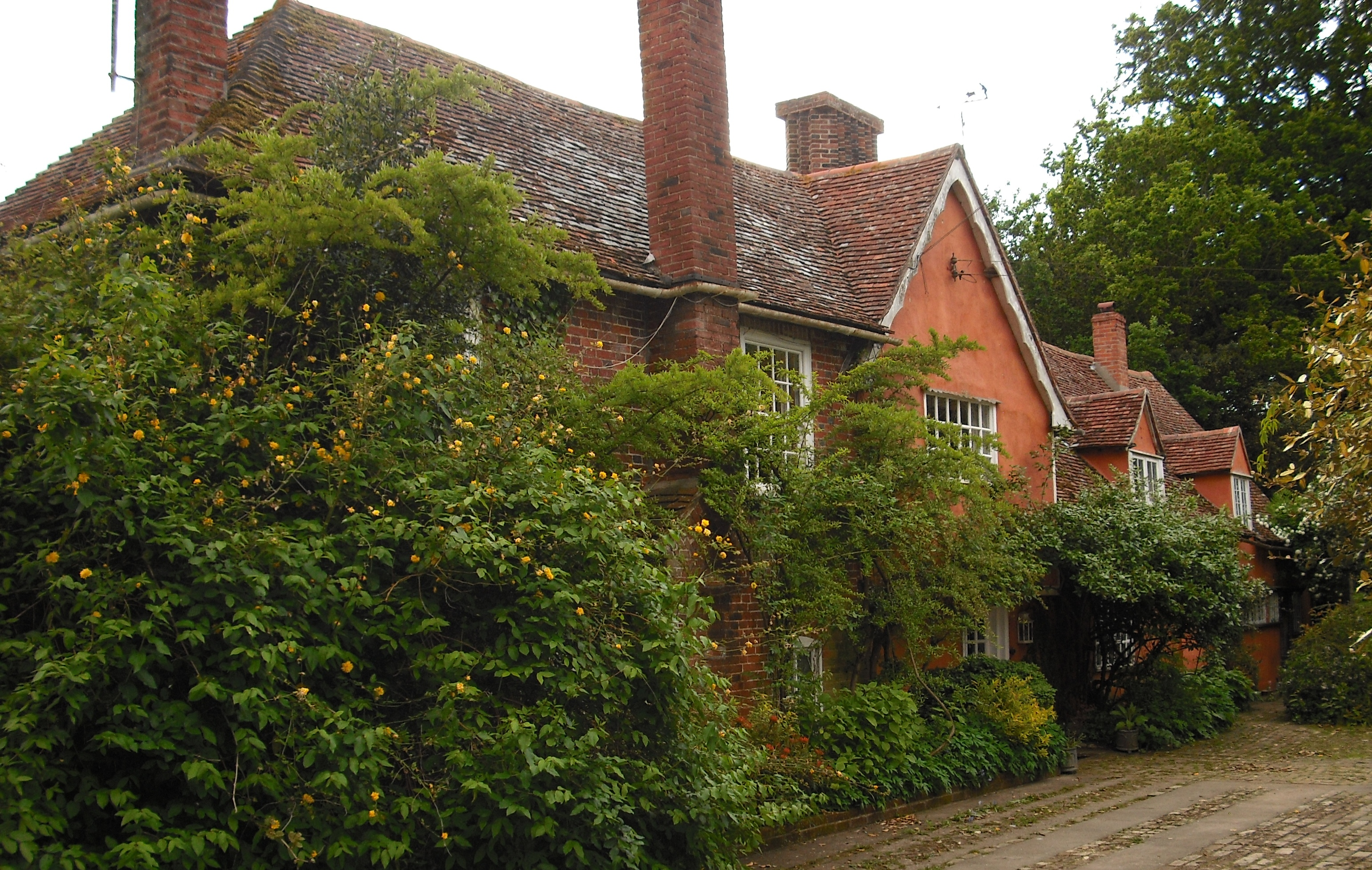 Pound Farm Higham, Suffolk - rear